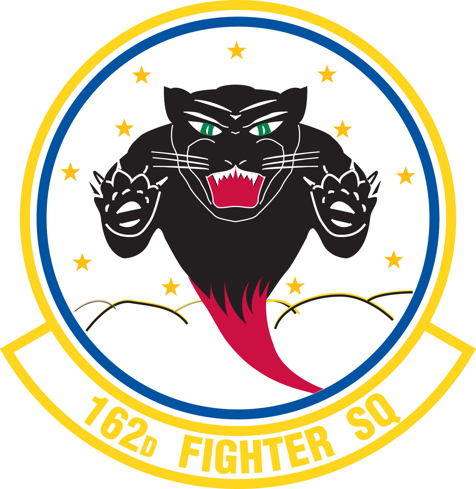 Emblem of the 162nd Fighter Squadron